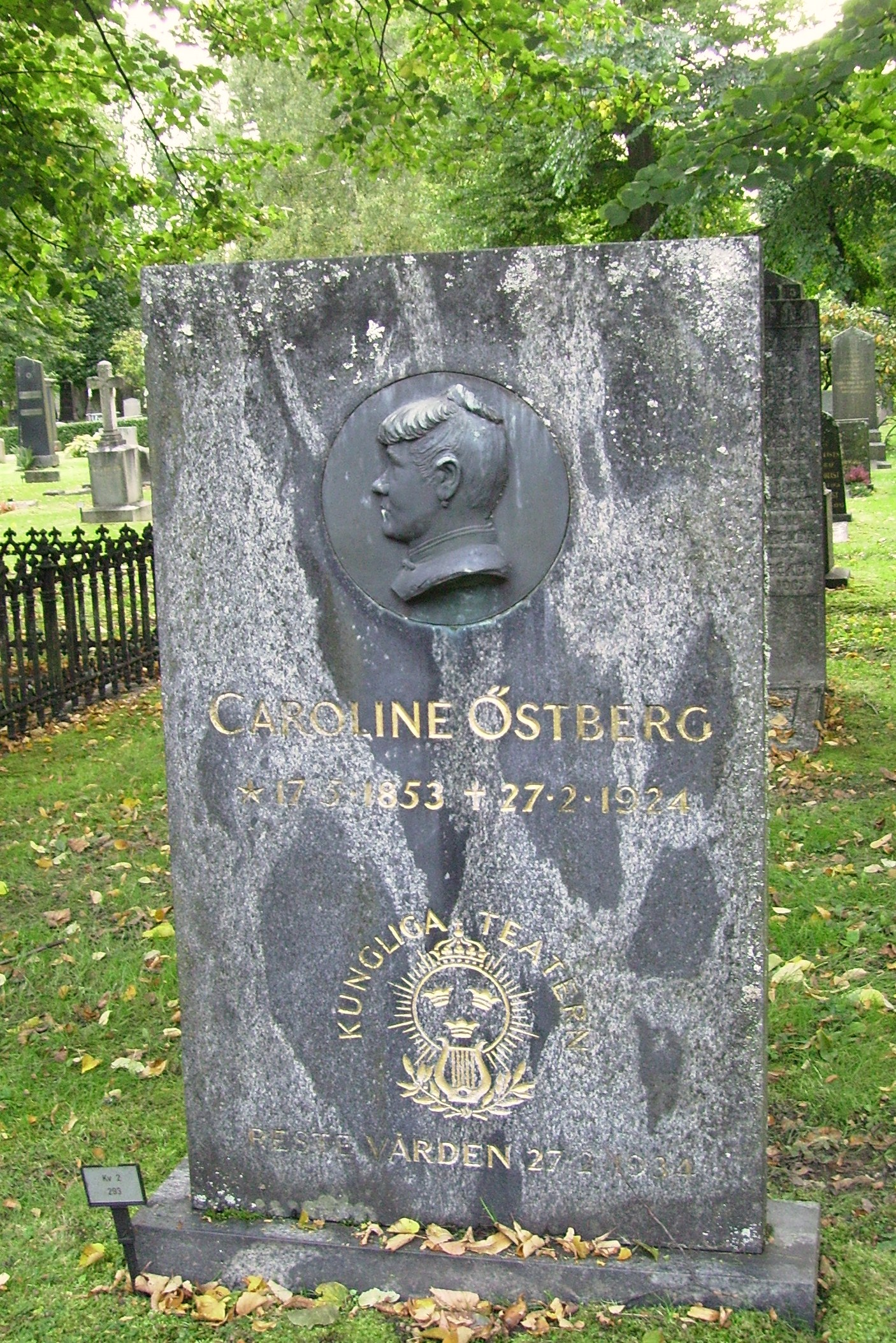 Picture of Caroline Östberg's grave at Norra begravningsplatsen in Solna